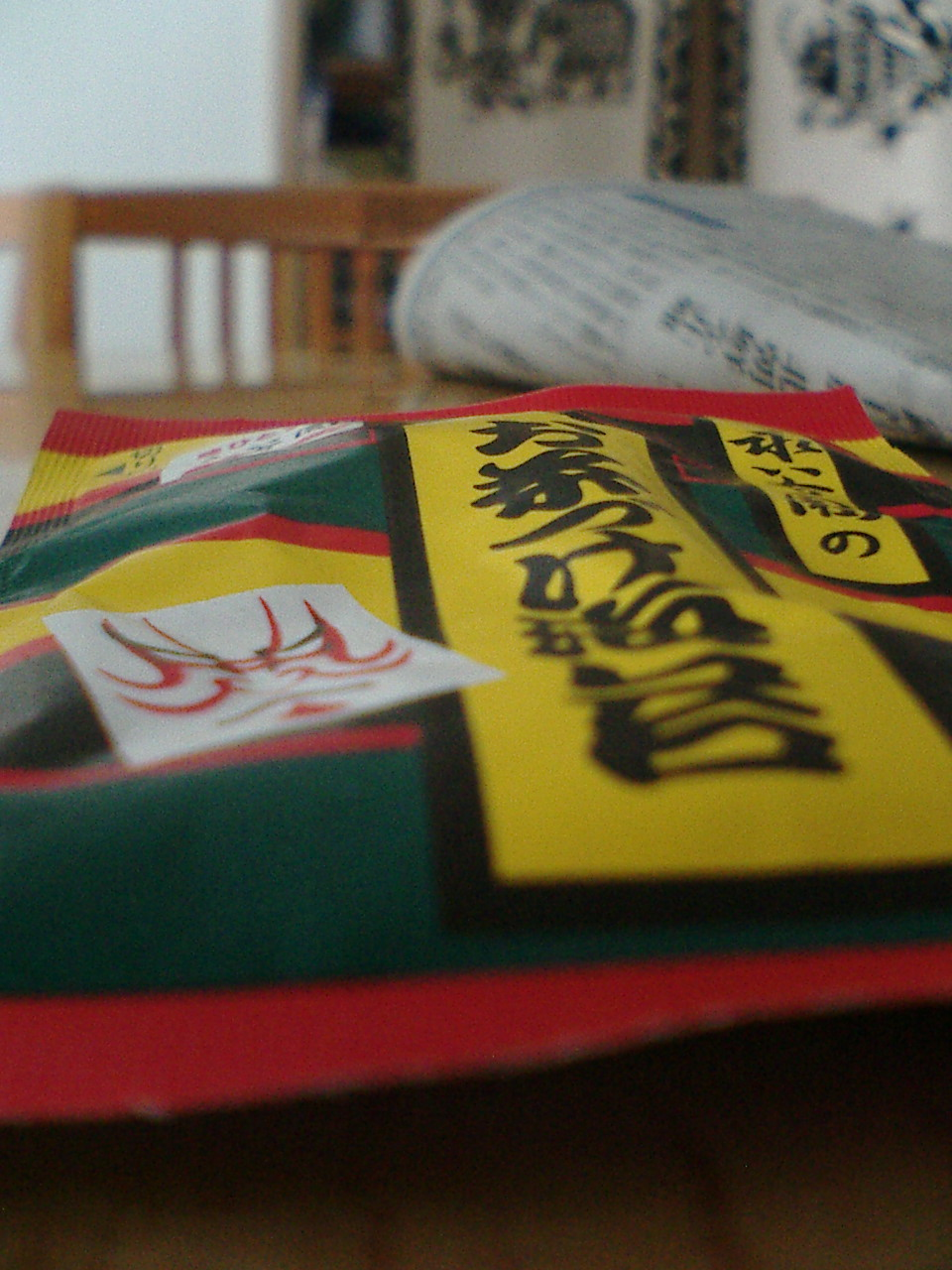 "Cha-duke(茶漬け)" is popular fast-food in Japan. This colorful pack is source of "Cha-duke". Instant chazuke toppings